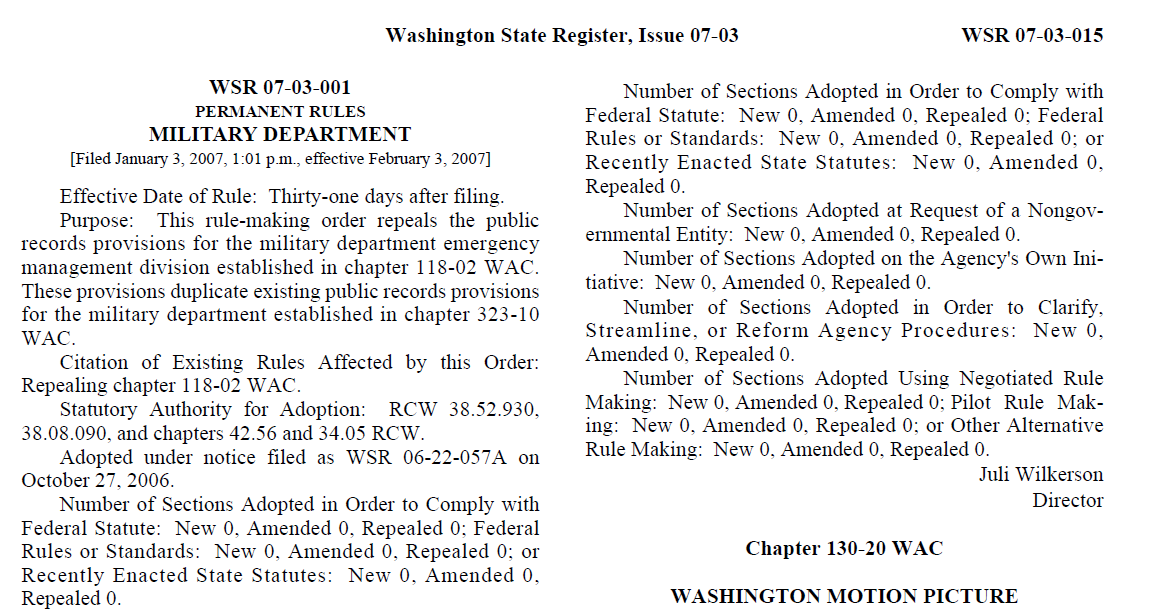 portion of an issue of the Washington State Register, c. 2007